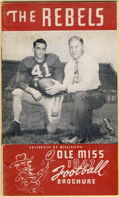 Scan of my 1947 University of Mississippi (Ole Miss) football media guide featuring Charlie Conerly and Johnny Vaught, both now deceased